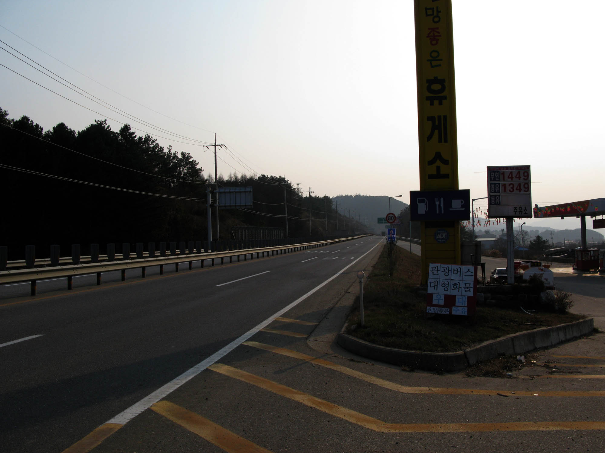 Korea National Road #44 at Hongcheon, Gangwon-do